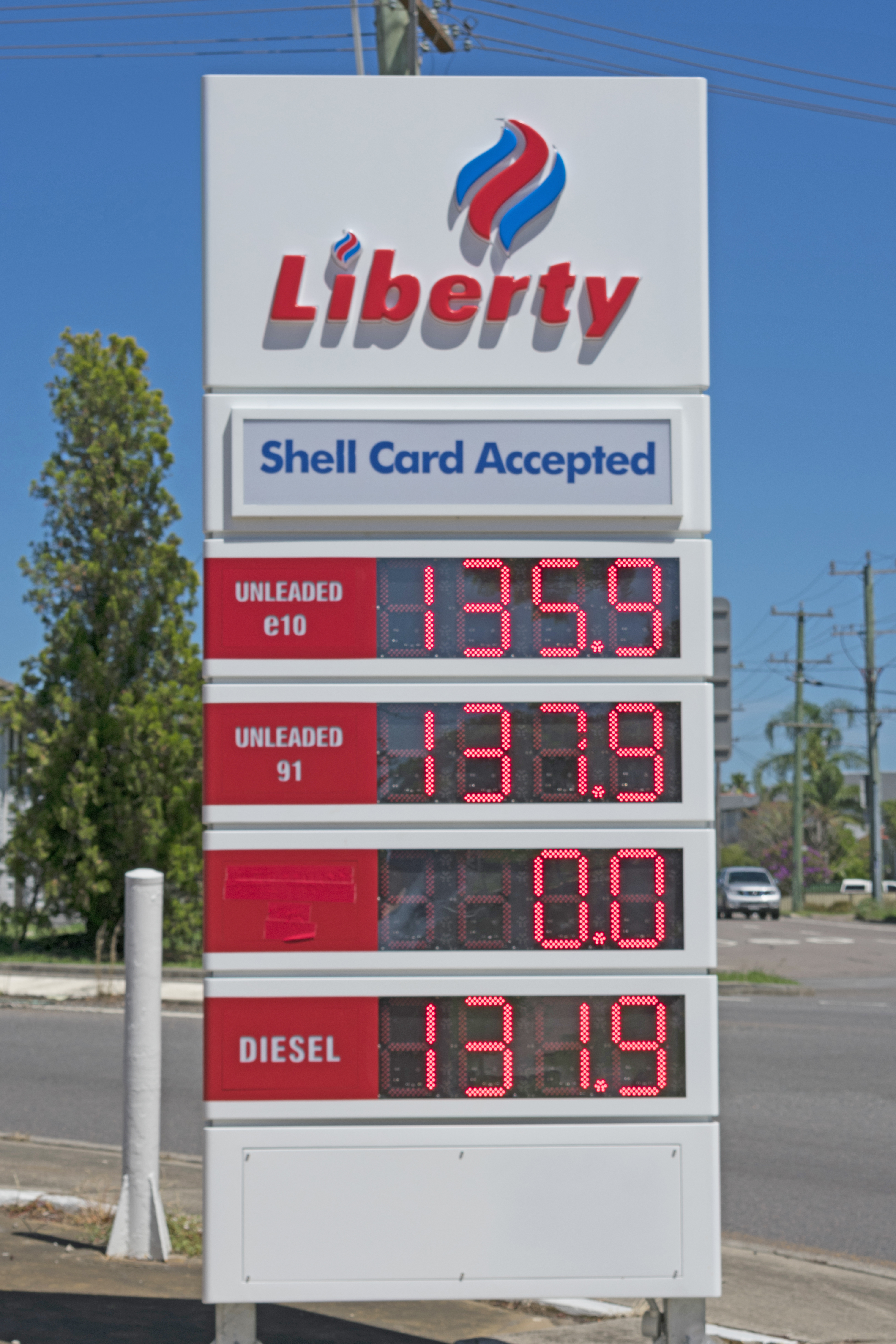 Liberty Service Station displaying their petrol prices on 28 February, 2018 at Birmingham Gardens, Newcastle, New South Wales.